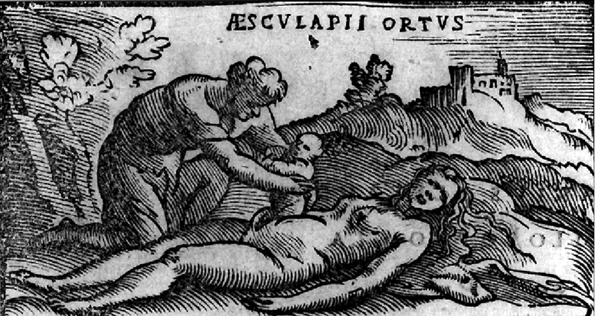 Woodcut from Alessandro Beneditti's De Re Medica.